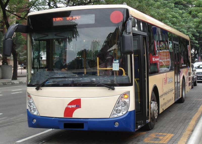 A new prototype RapidKL bus I took